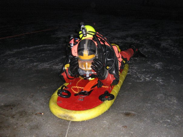 Crossing ice on sled